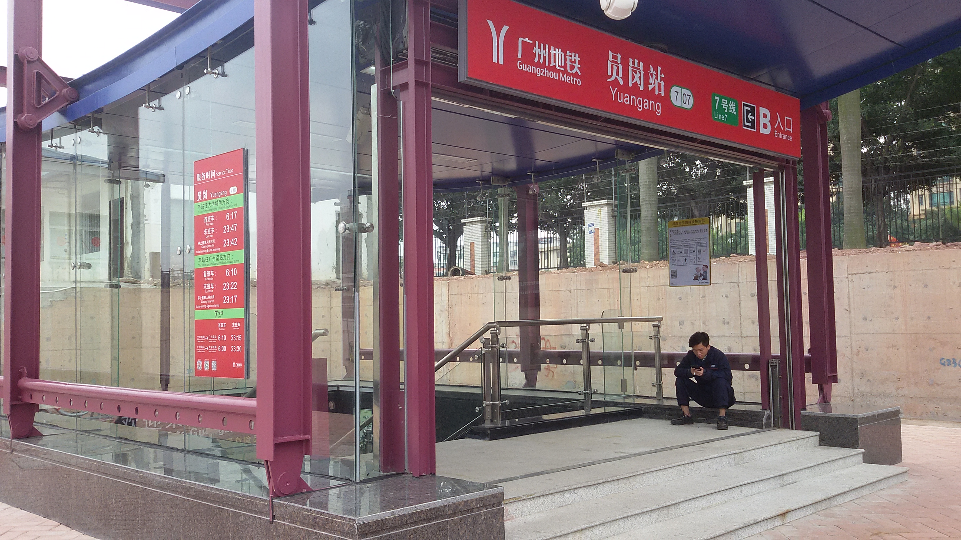 粵語: 廣州地鐵，員崗站嘅B出入口。